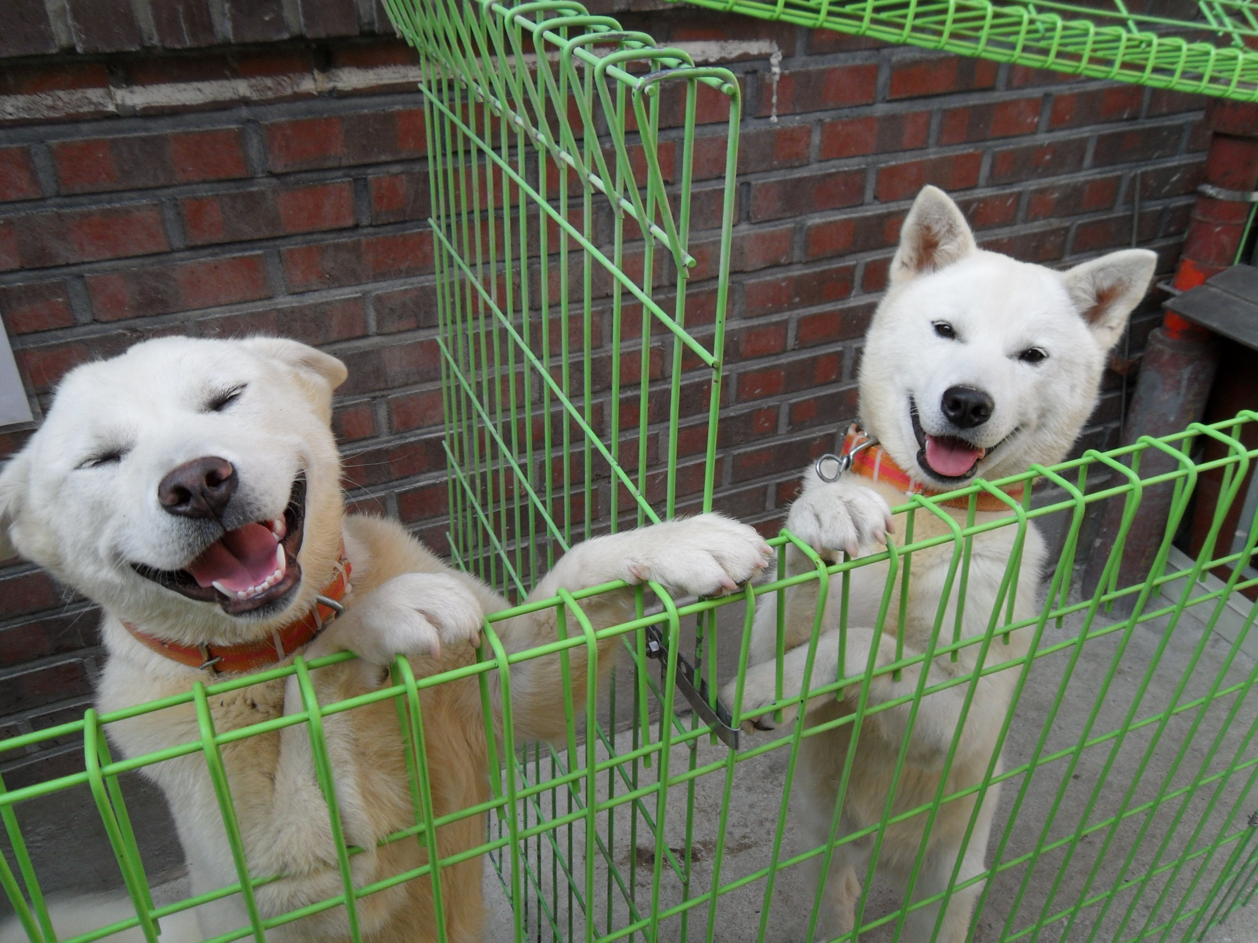 Poongsan dogs parceled out to citizens